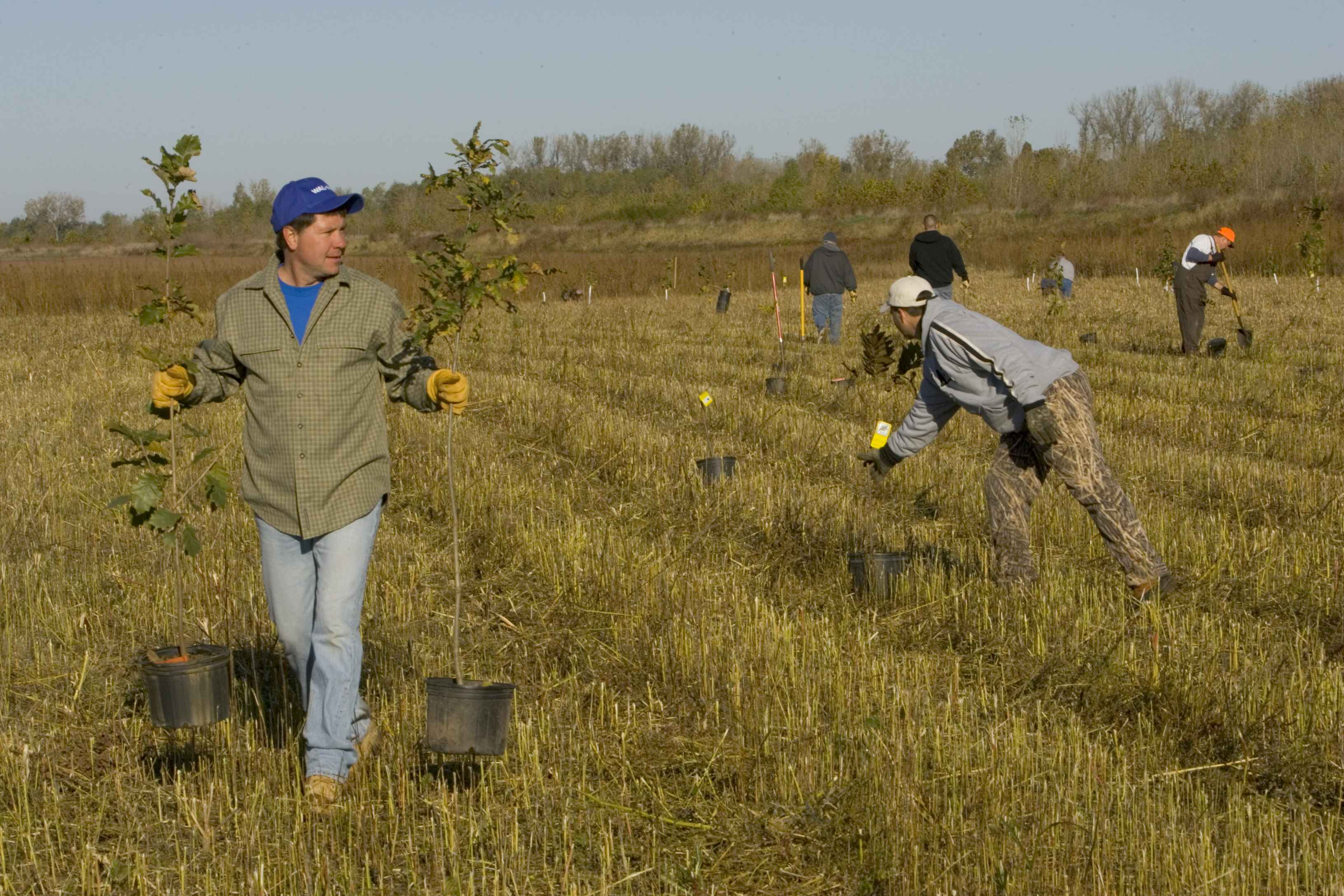 Image title: Several people planting trees Image from Public domain images website